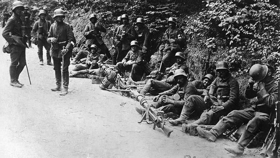 German assault troops with MG 08/15 (battle of Caporetto, Italian front, Wolrd War I, 1917)